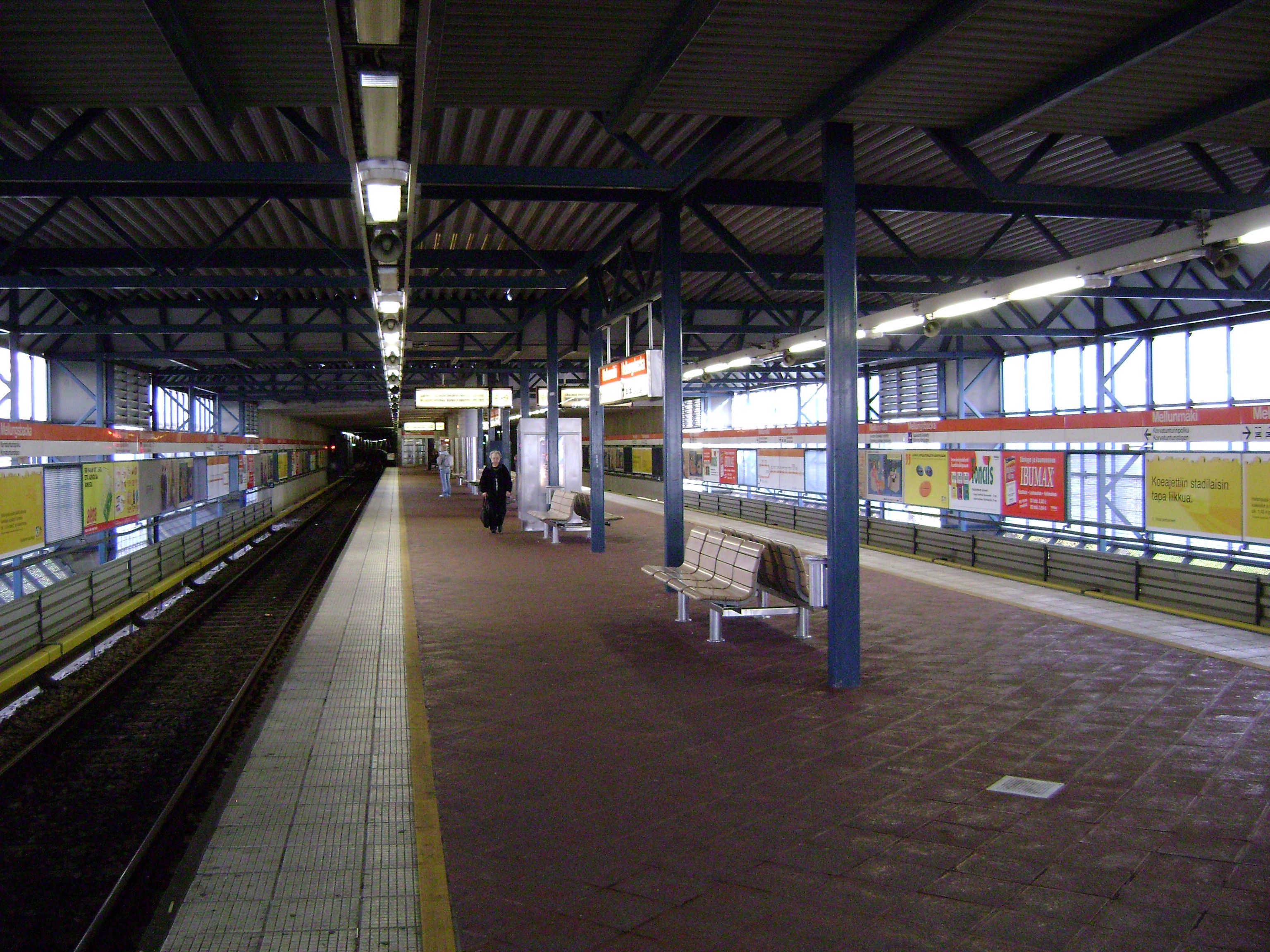 Platform of Mellunmäki metro station, Helsinki.